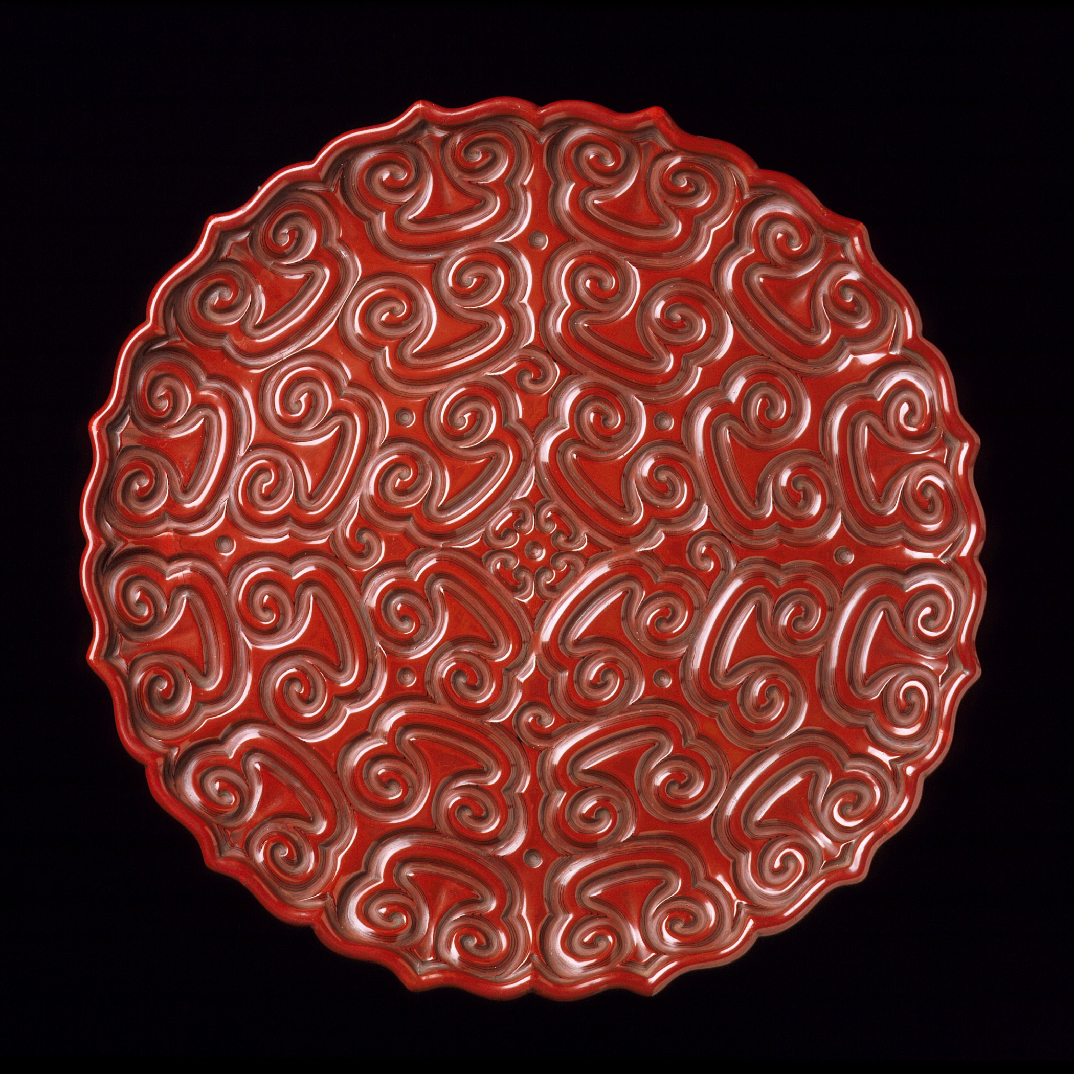 China, Chinese, Early Ming dynasty, about 1368-1450 Furnishings; Serviceware Carved red lacquer (tixi) on wood core Gift of Robert and Gwenna Blackmore (M.87.203) Chinese Art